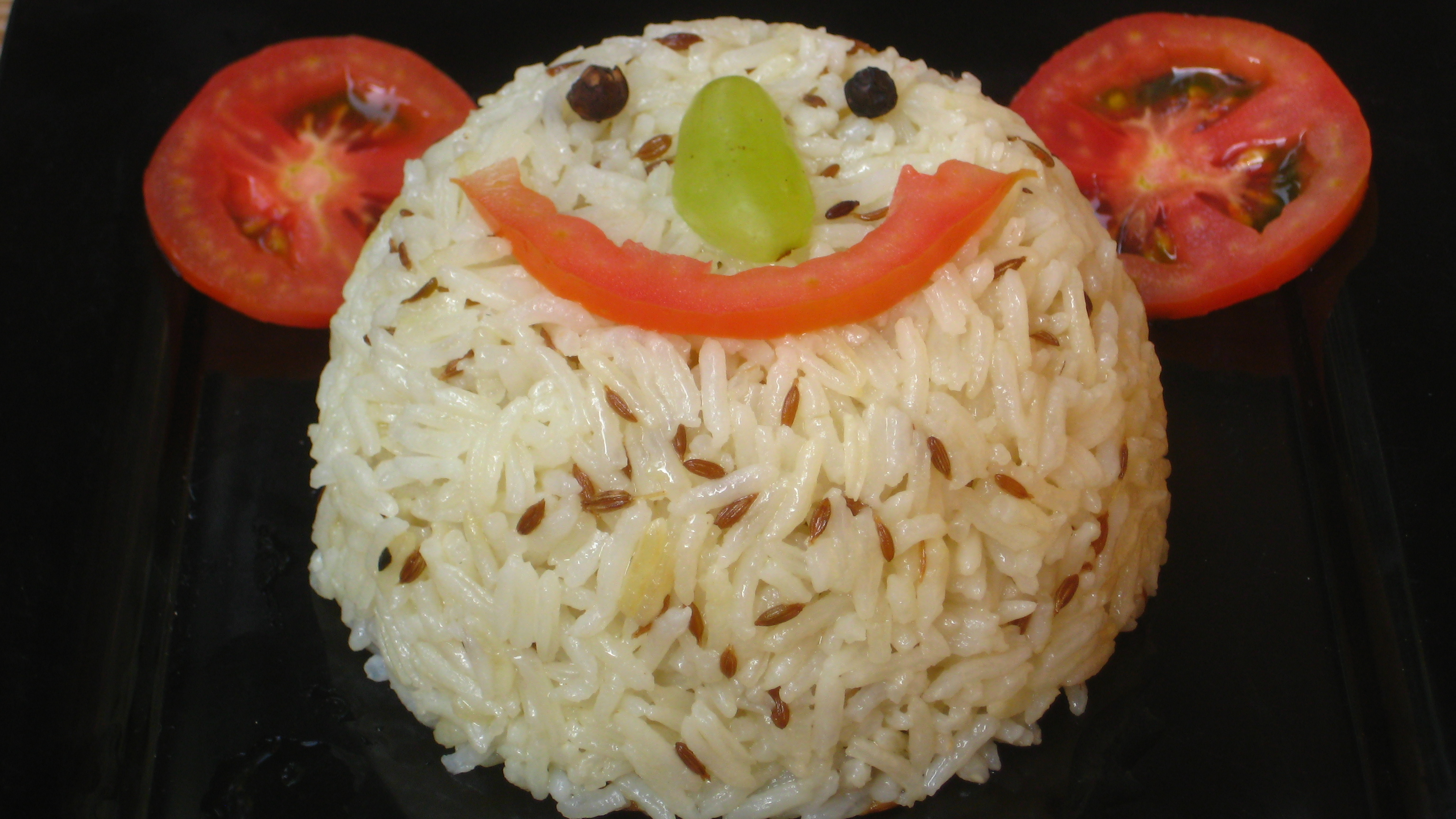 Jeera rice is an Indian recipe in which rice is cooked with cumin seeds (Jeera). The wonderful aroma of cumin seeds make this rice recipe very aromatic and mouth watering.